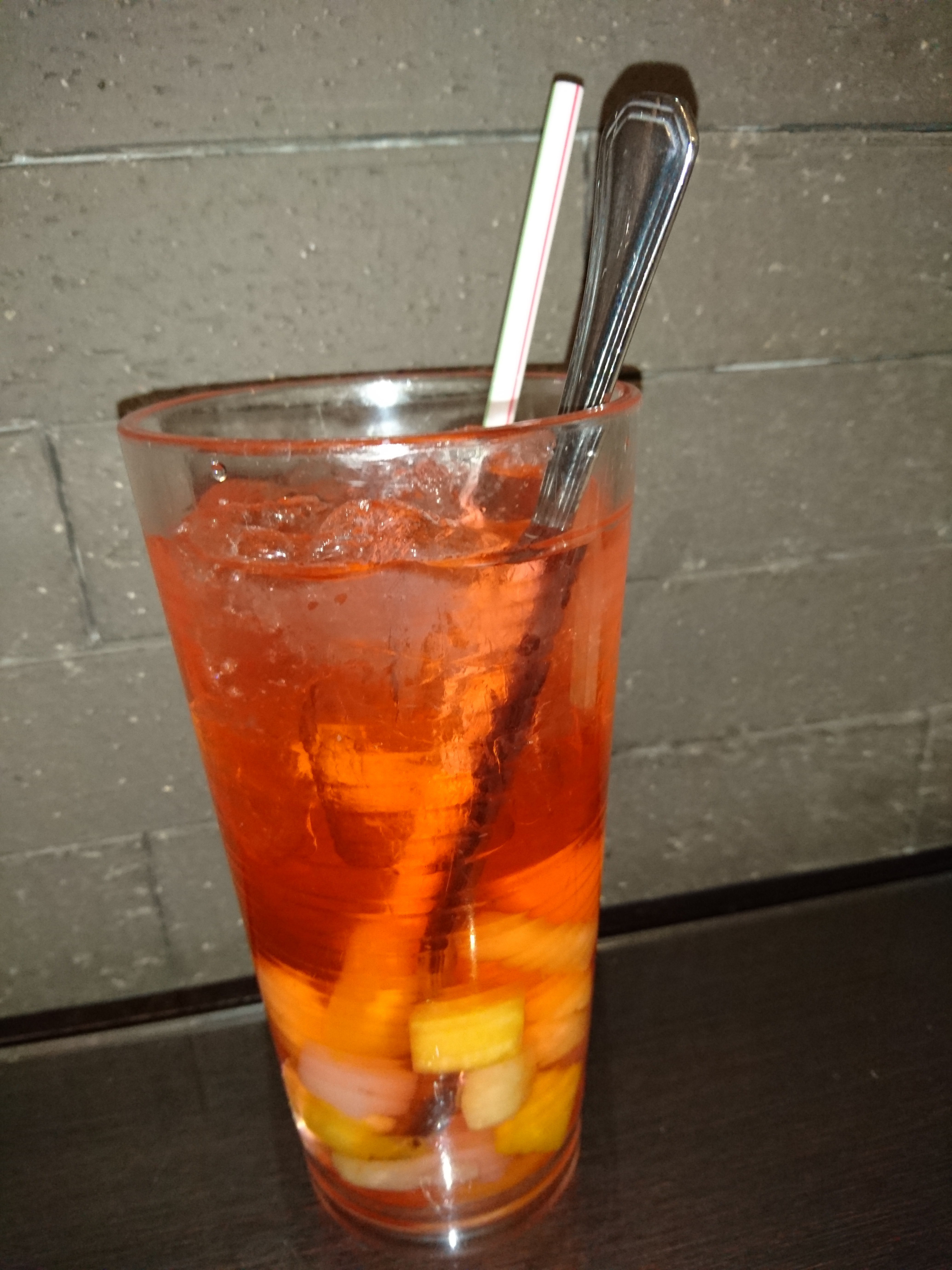 Fruit Punch